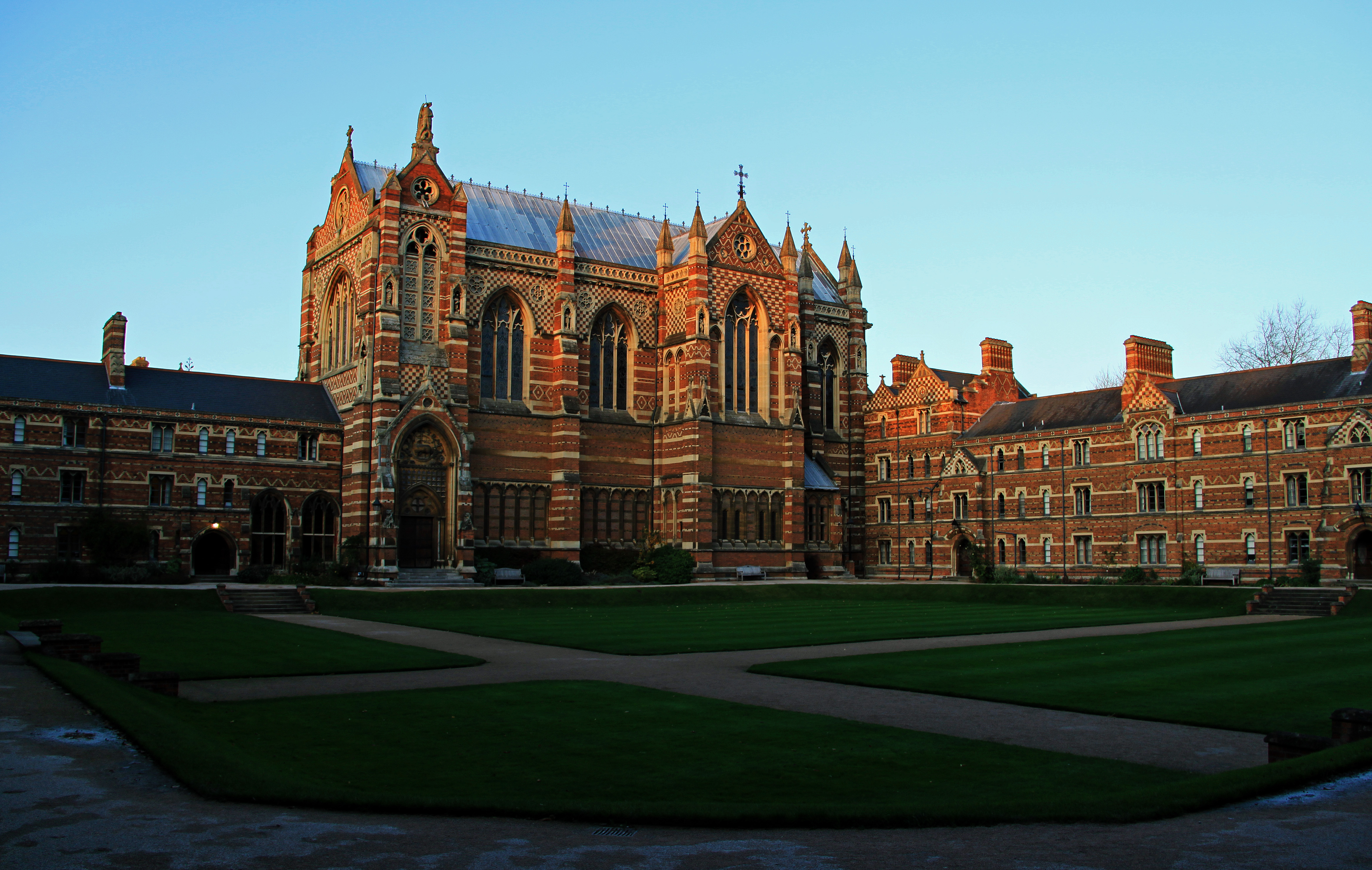 Keble College, Oxford - 2009